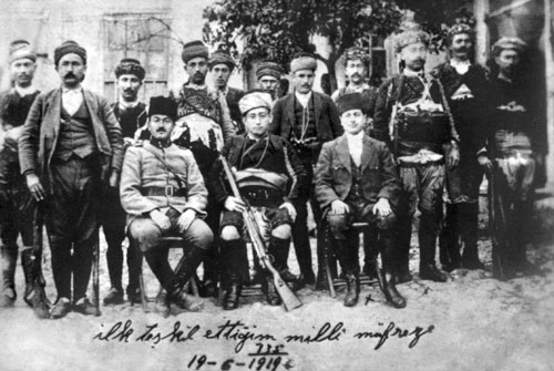 Şükrü Oğuz Alpkaya, Yörük Ali Efe and their colleagues, June 19, 1919